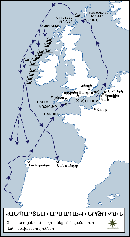 Routes of the Spanish Armada